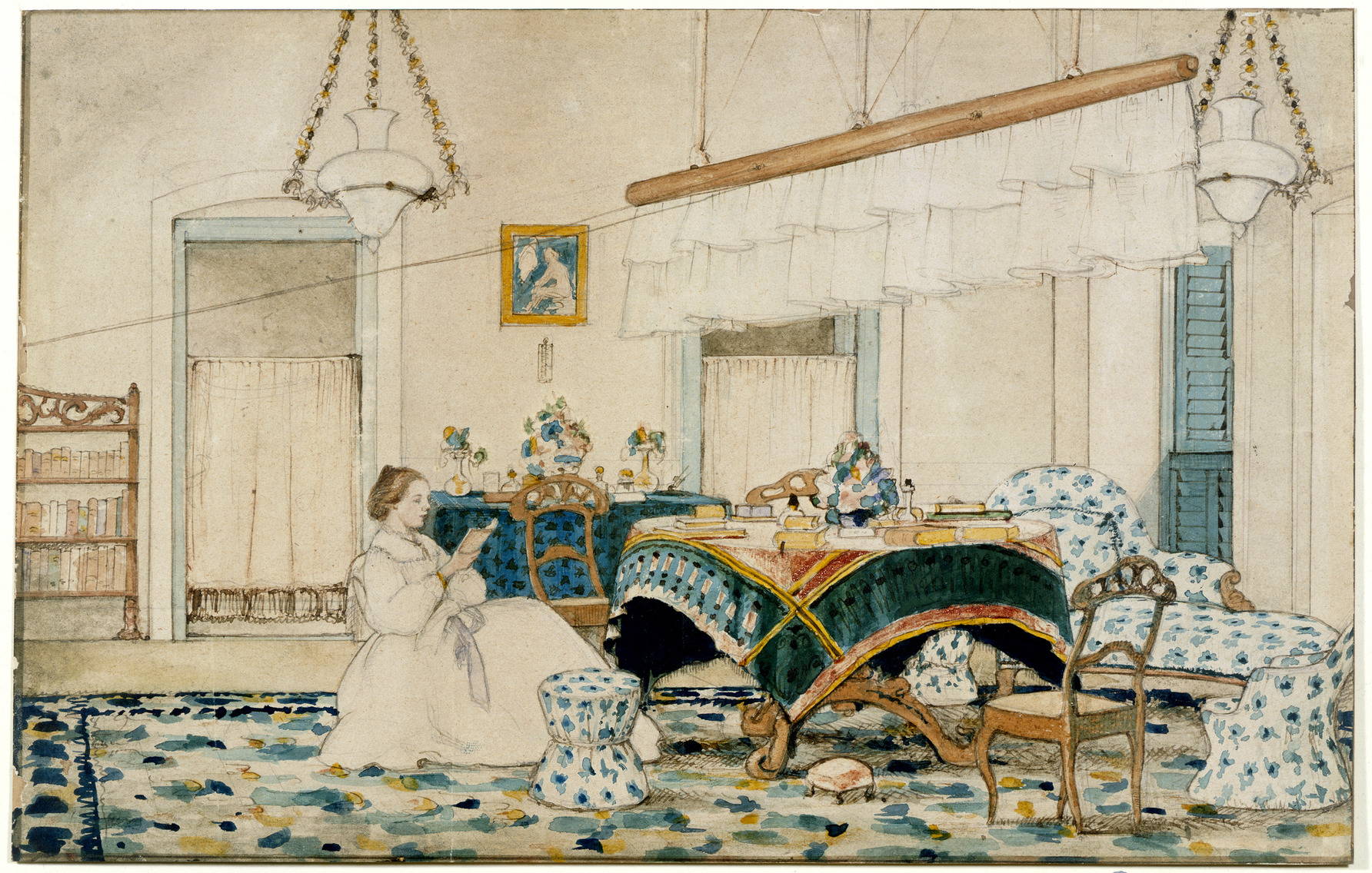 A woman reading under a punkah in a comfortably furnished room. Inscribed on reverse: 'Mrs Gladstone Lingham's drawing room at her residence in Berhampore, 1863'.